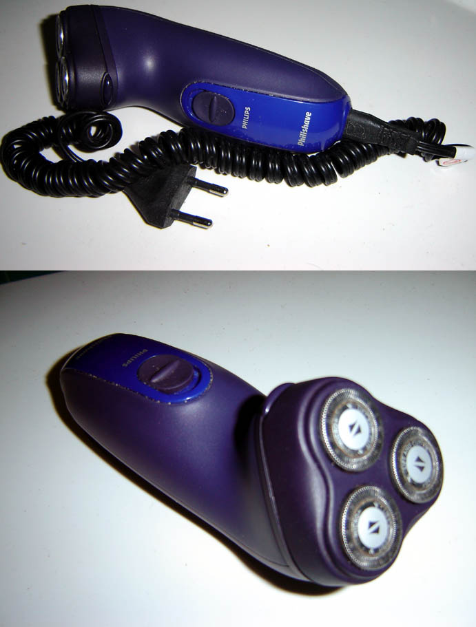 Description: Philishave HQ-5426 picture, taken by user Carioca License: GFDL